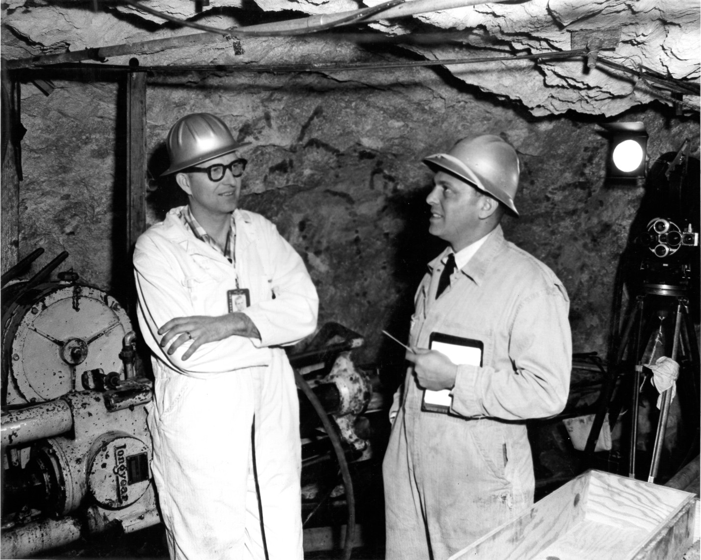 Mr. Arthur Morse (right) of the CBS TV Program “See It Now” interviewing Mr. Dale Nielsen (left), General Manager in Nevada of the University of California radiation Lab. Picture taken on location in the RAINIER tunnel Diagnostics Room.